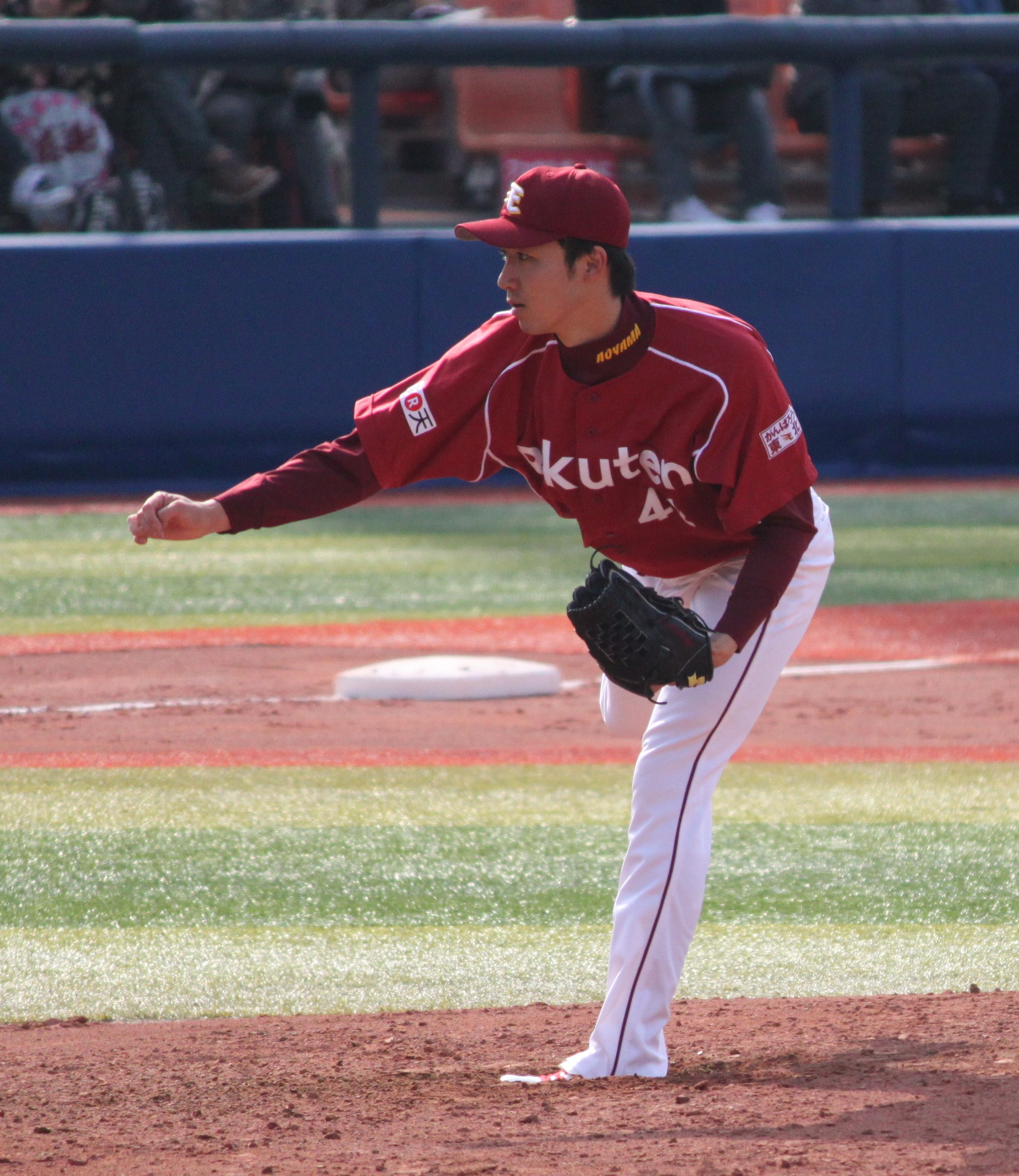 Koji Aoyama, pitcher of the Tohoku Rakuten Golden Eagles, at Yokohama Stadium.